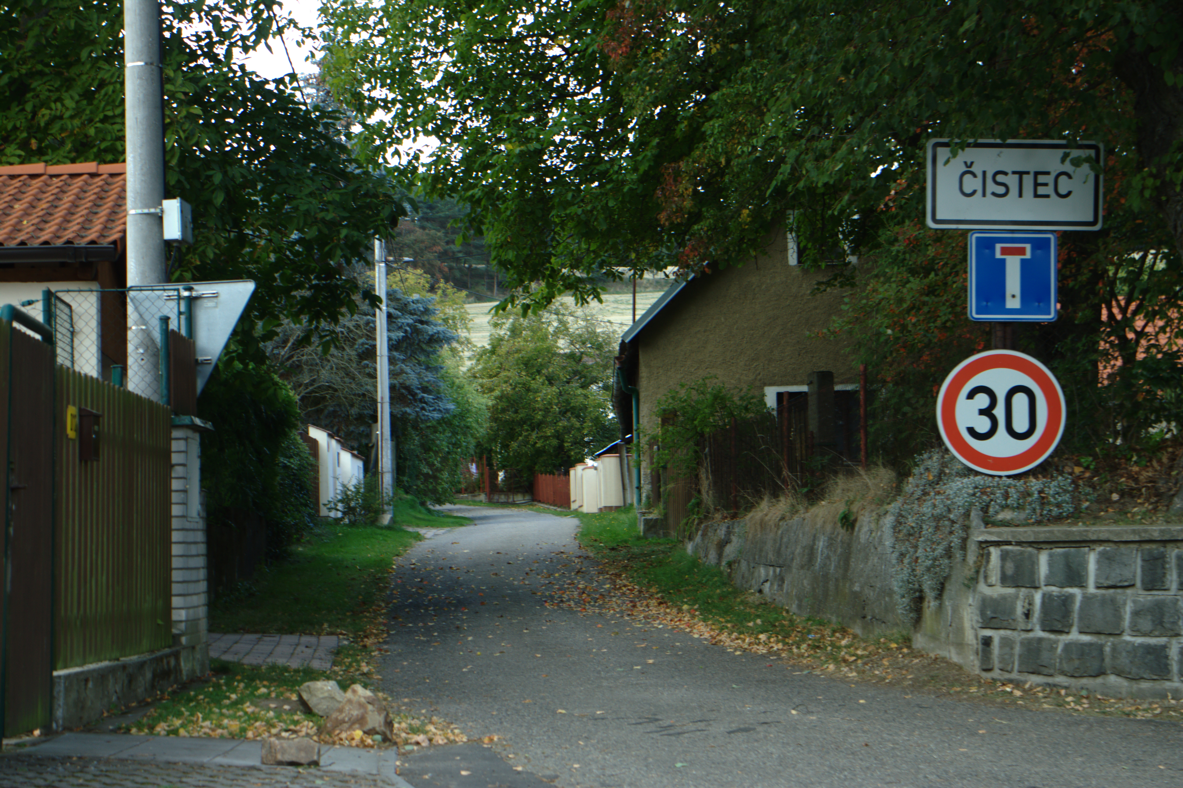 Main road in the village of Čistec, Central Bohemia, CZ